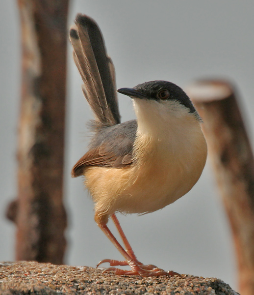 Ashy Prinia Prinia socialis in Hyderabad, India.